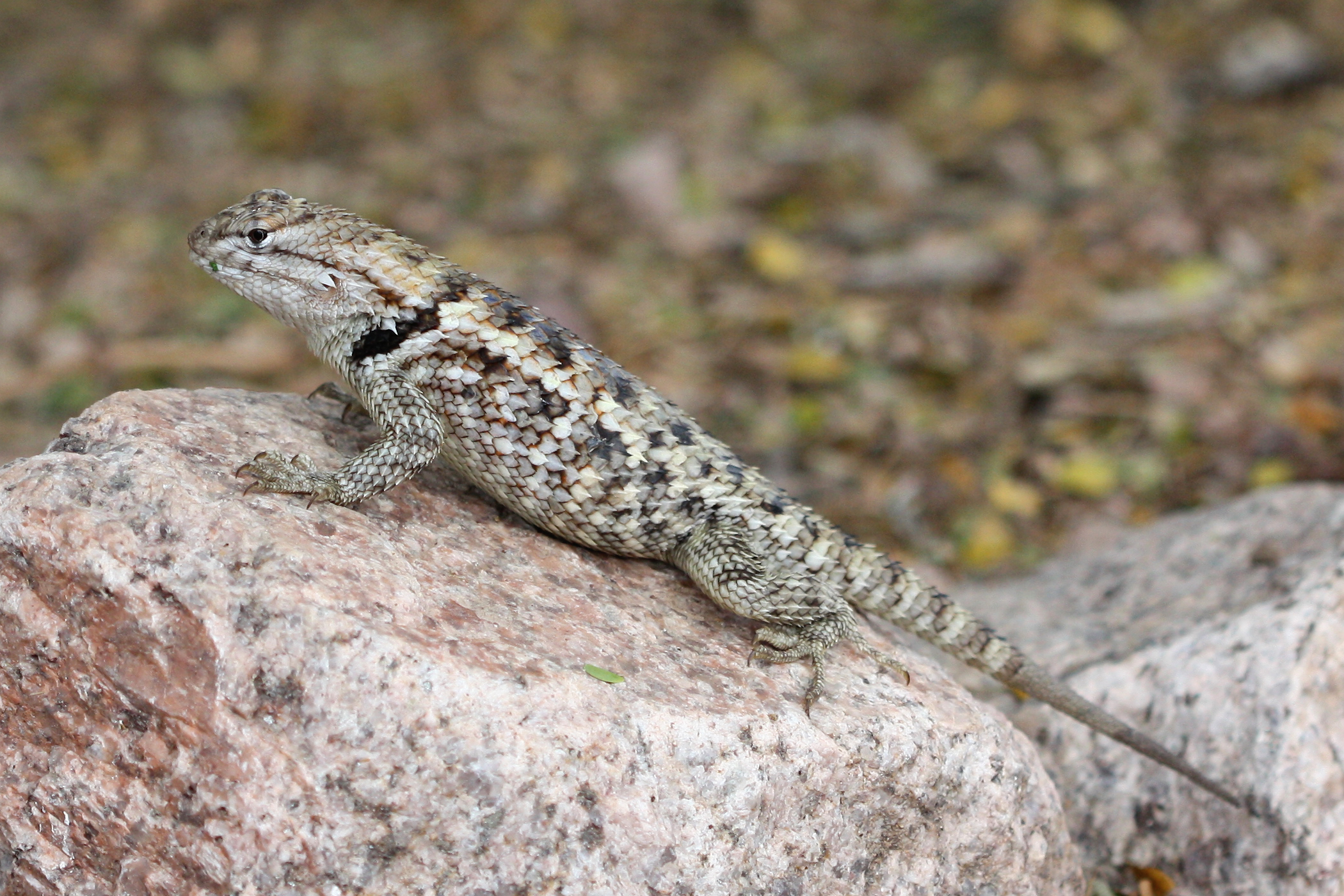 Twin-spotted Spiny Lizard (Sceloporus magister) in Phoenix, Arizona